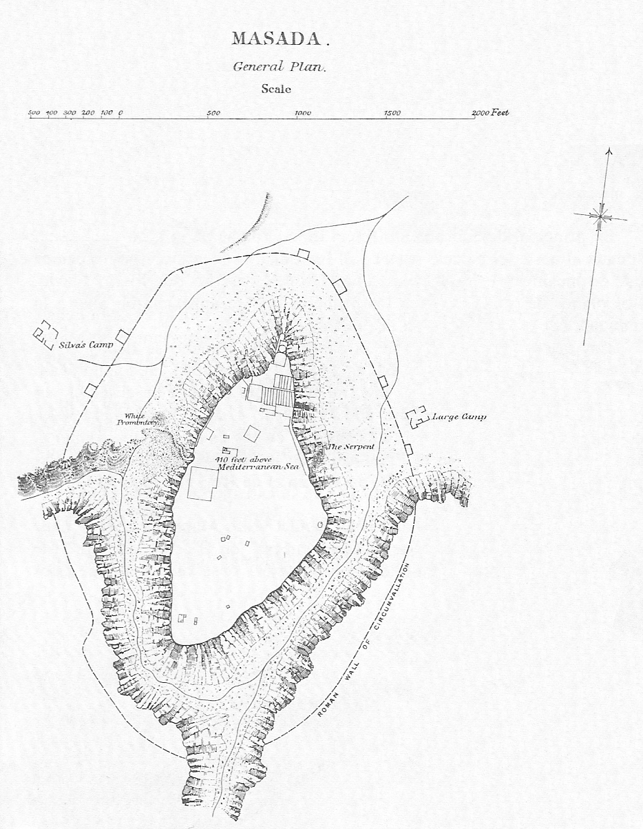 General map of Masada, outside the fortress.